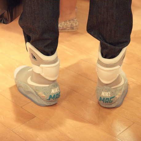 A person wearing Nike Mag shoes, photographed from behind.